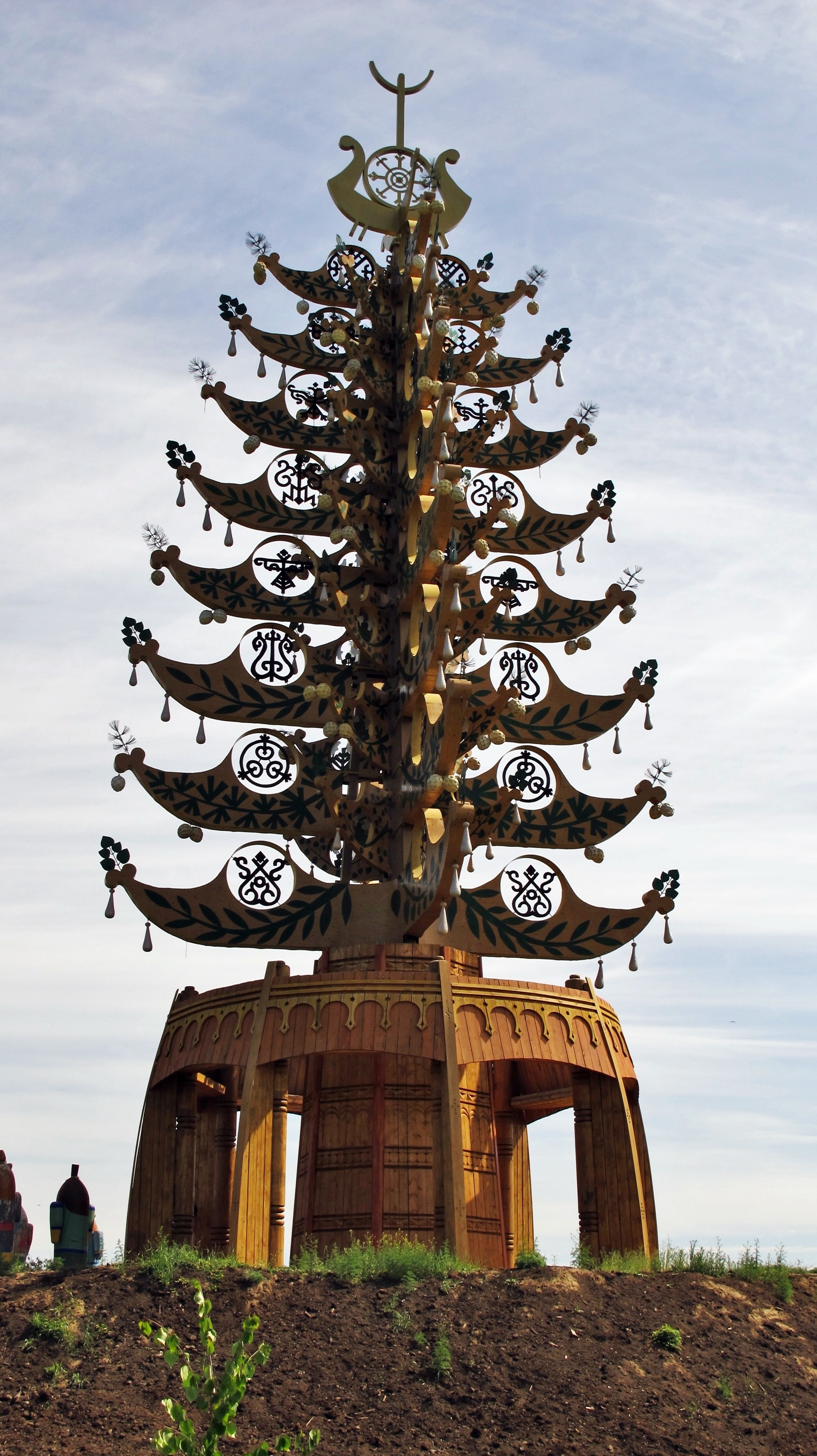 The World Tree